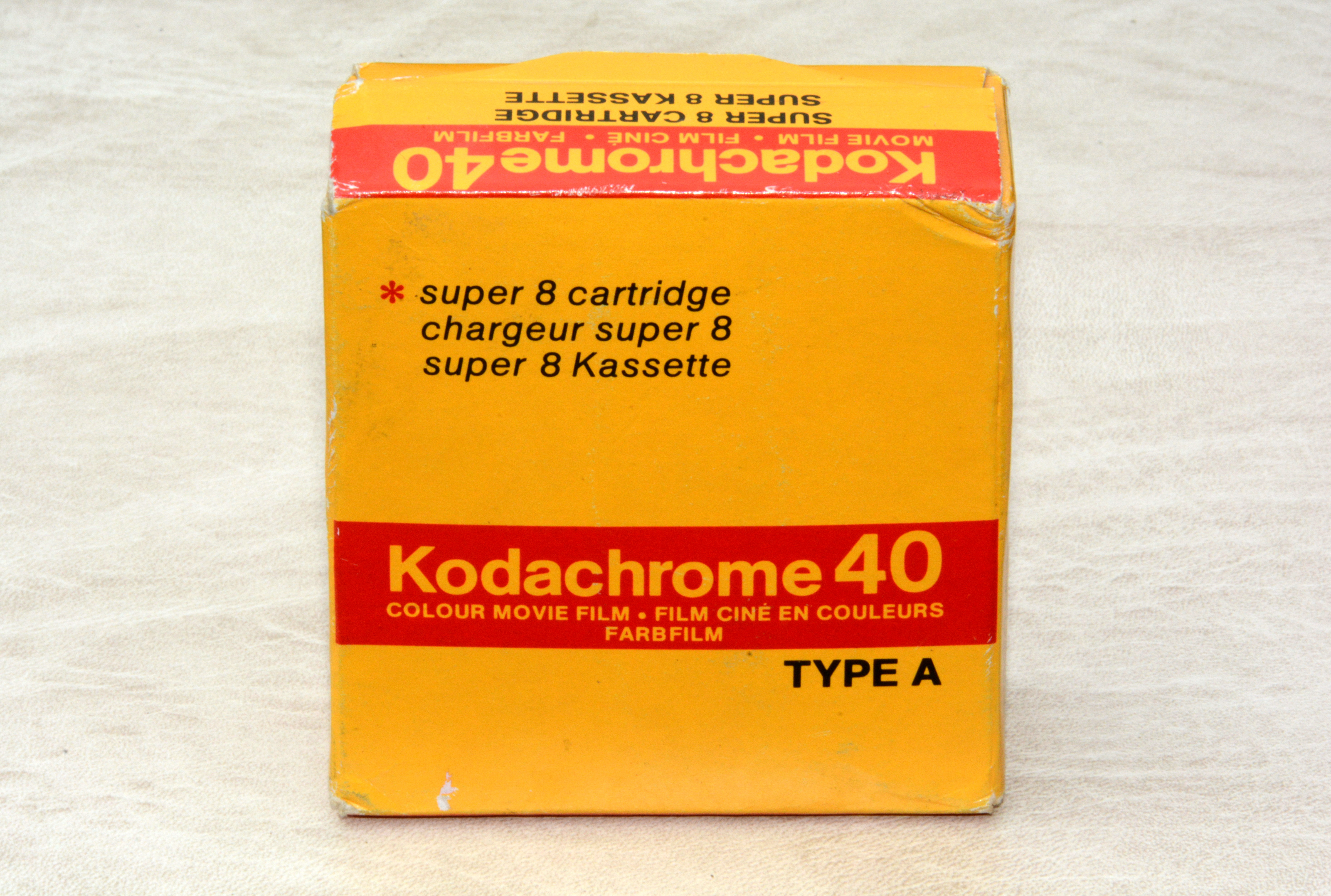 Kodak Kodachrome 40, Type A, original box